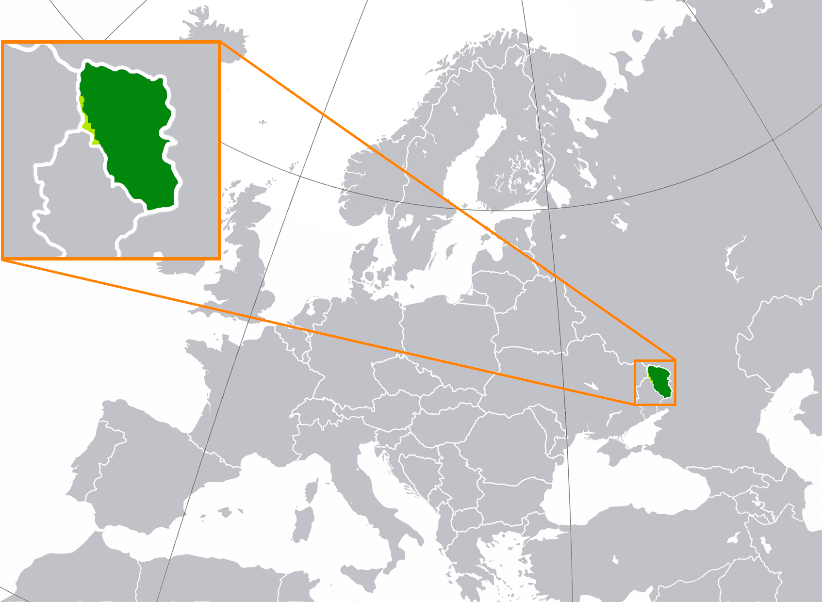 territory controlled by the self-proclaimed Lugansk People's Republic (dark green) inside of the Luhansk Oblast (light green) inside Doneck People's Republic (dark blue)